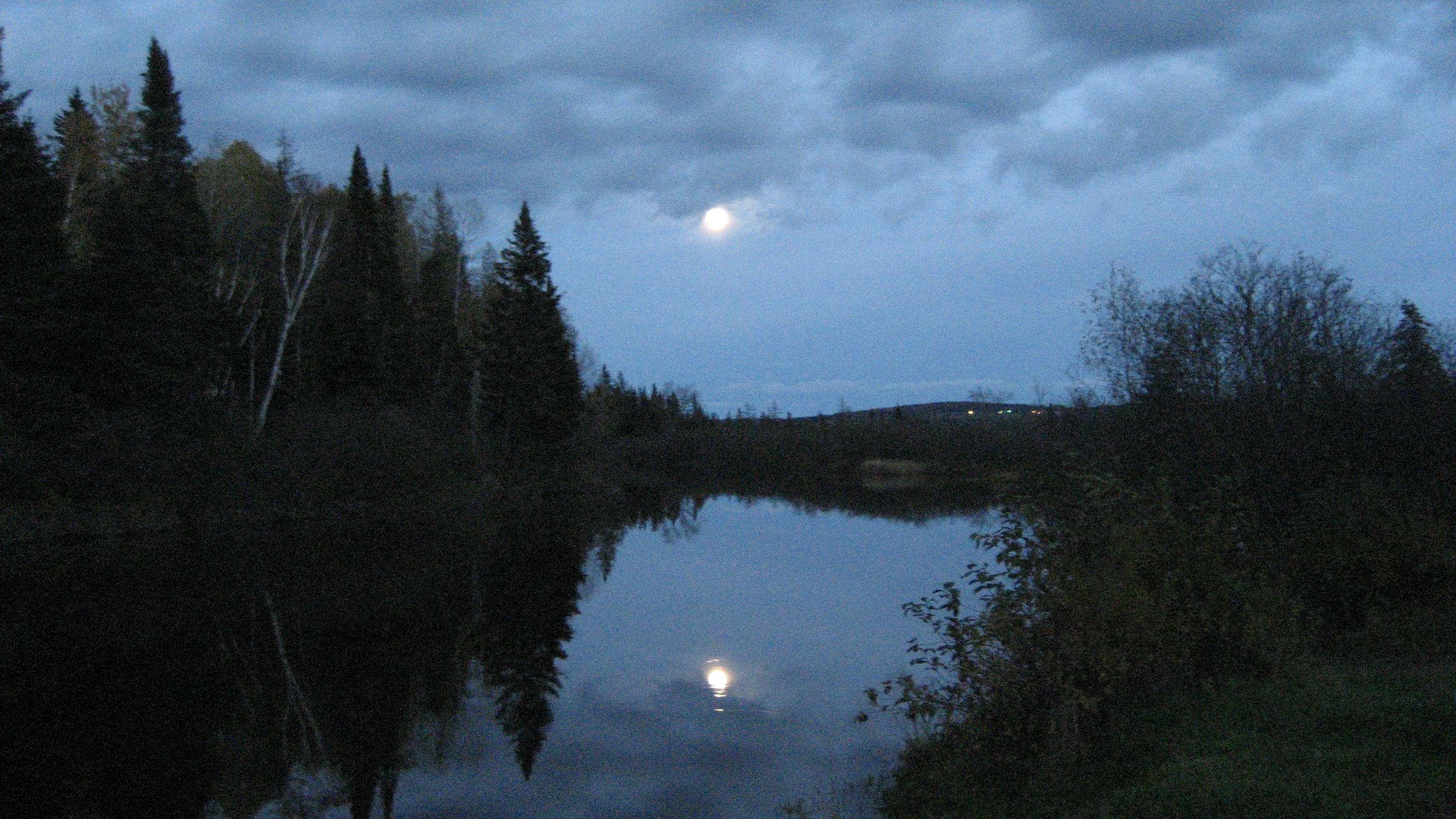 Etchemin river, St-Odilon Crambourne, Qc, Canada